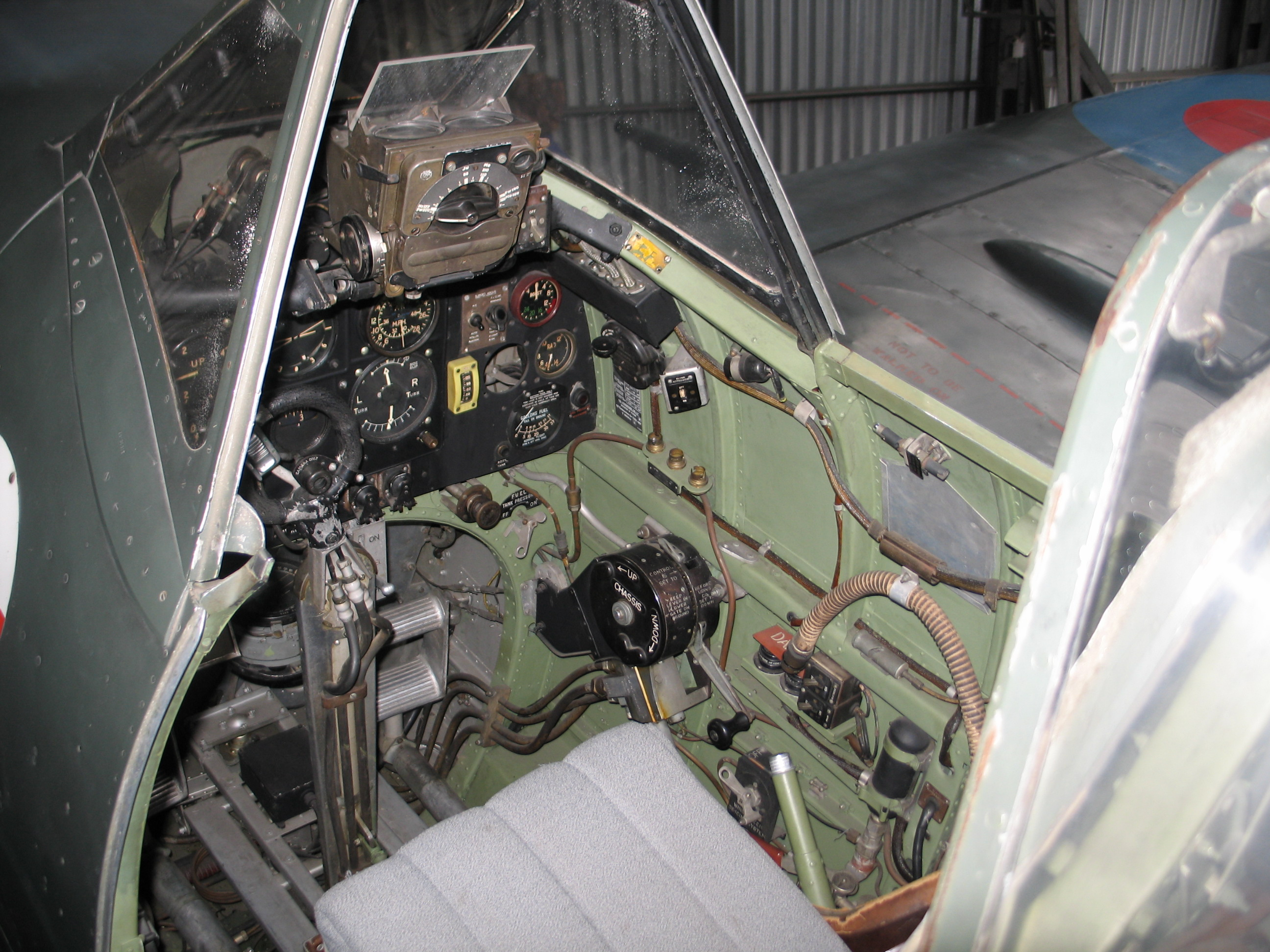 Cockpit of Supermarine Spitfire Mk.IX, Aviation Museum Prague Kbely, marking of No. 310 Squadron RAF. Own work